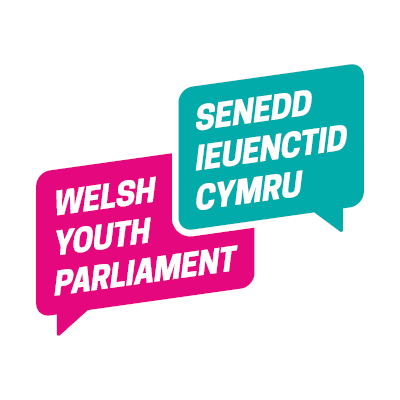 Logo of the Welsh Youth Parliament, an organisation established by the National Assembly for Wales